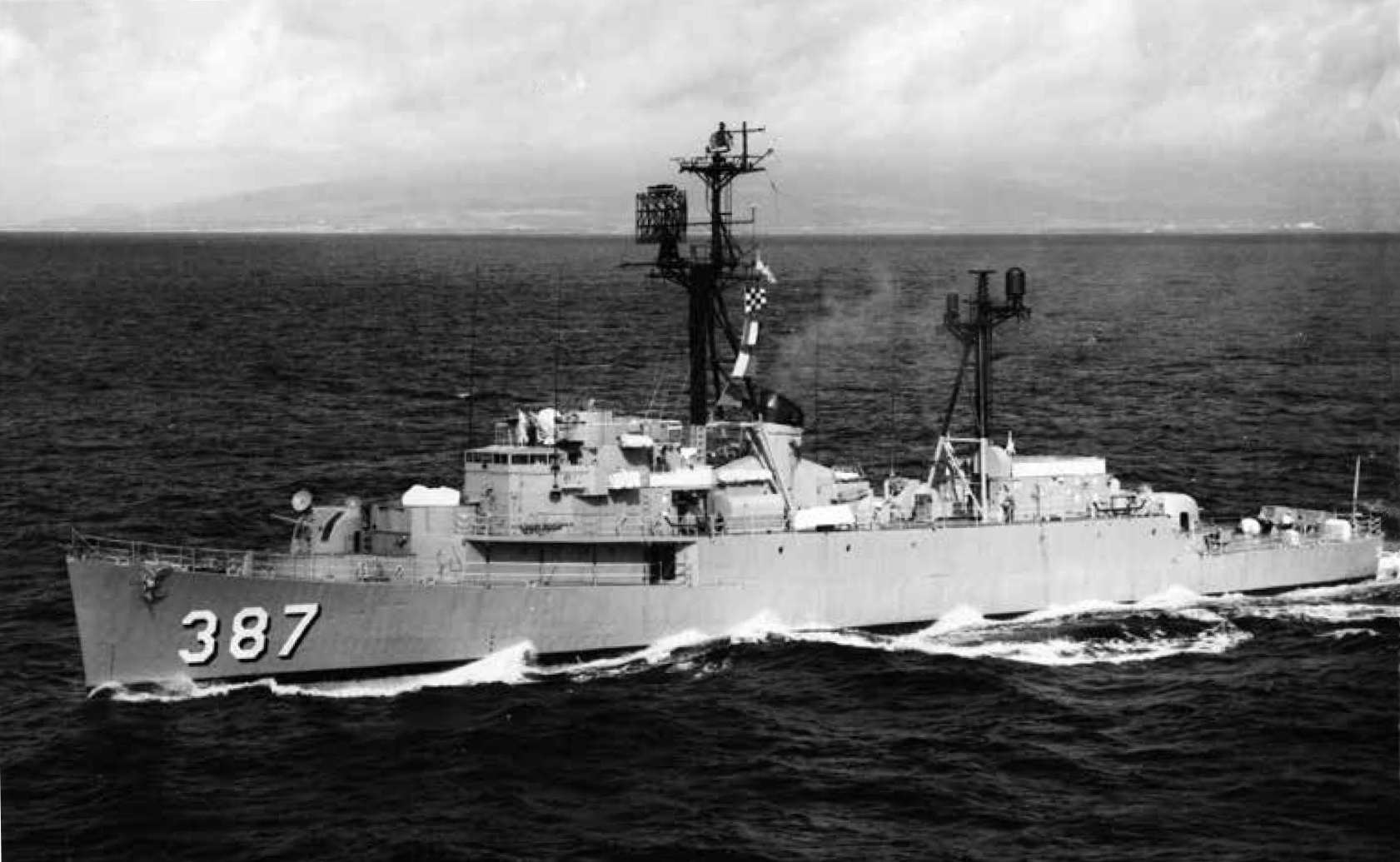 The U.S. Navy radar picket destroyer escort USS Vance (DER-387) underway at sea on 26 November 1967. In late 1967, the ship began its final Western Pacific deployment in which it was mostly employed in "Operation Market Time" off the coast of South Vietnam. She subsequently returned to the West Coast of the United States late in 1968 for inactivation.